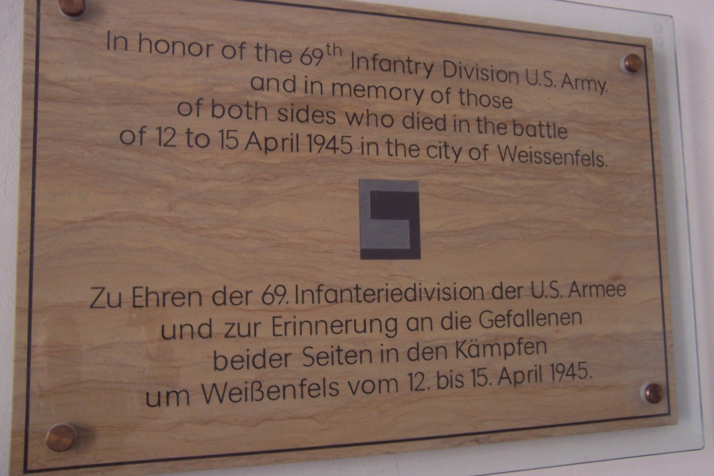 Sign commemorating the taking of Weissenfels by the US-army in 1945, Schloss Neu-Augustusburg, Weissenfels, Germany